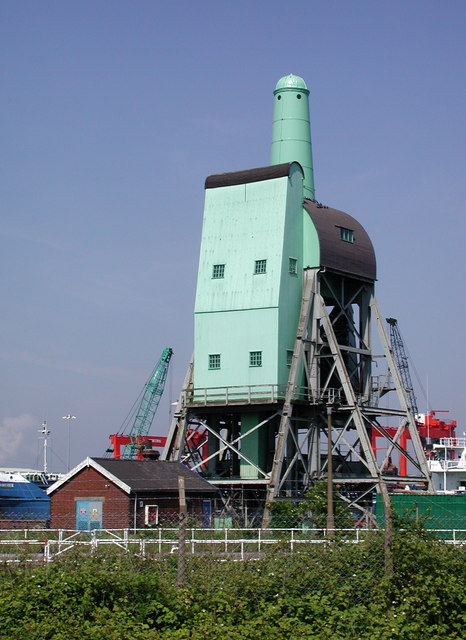 Compartment Boat Hoist No.5, Goole, East Riding of Yorkshire, England.The last of Goole's five compartment boat hoists on South Dock, now looked after by a charity called The South Dock Compartment Boat Co. Ltd. Container (or compartment) boats called Tom Puddings were linked together in trains to transport coal down the Aire & Calder Navigation from the Yorkshire coalfields to Goole, where each boat would be lifted out of the water by hydraulic hoists such as this one and its cargo emptied into the hold of a waiting coaster. At the industry's peak in 1913 over 1000 Tom Puddings carried one and a half million tons of coal down the canals to Goole in a single year. The system had become uneconomic by the 1980s and the hoists fell into disrepair. Hoist No.5 was rescued and restored in 1996-97.